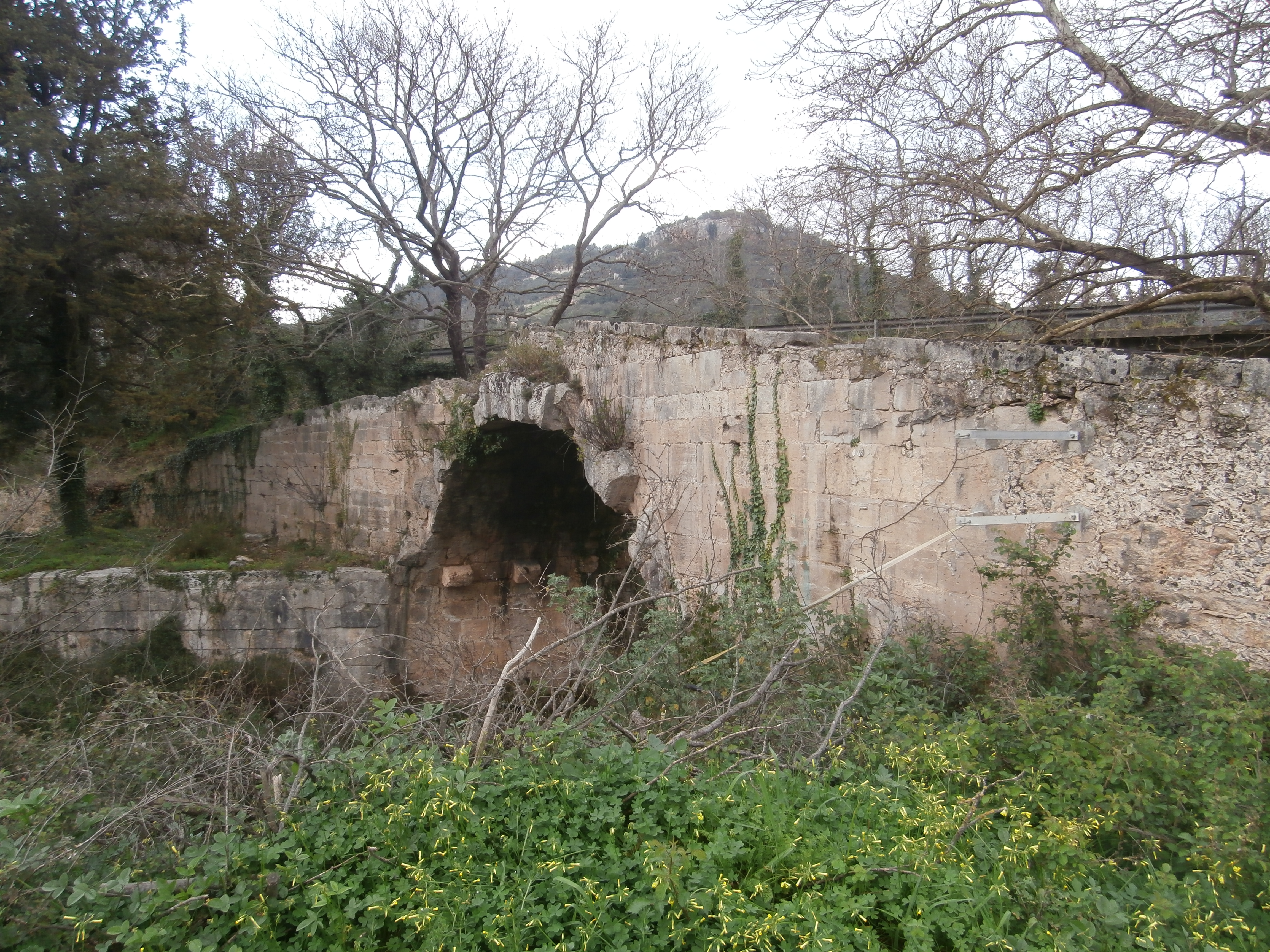 Ellinistiki Kamara is an Roman arch near Vryses Apokoronou, Crete